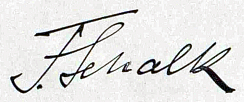 Signature of Franz Schalk (1863–1931), Austrian conductor.